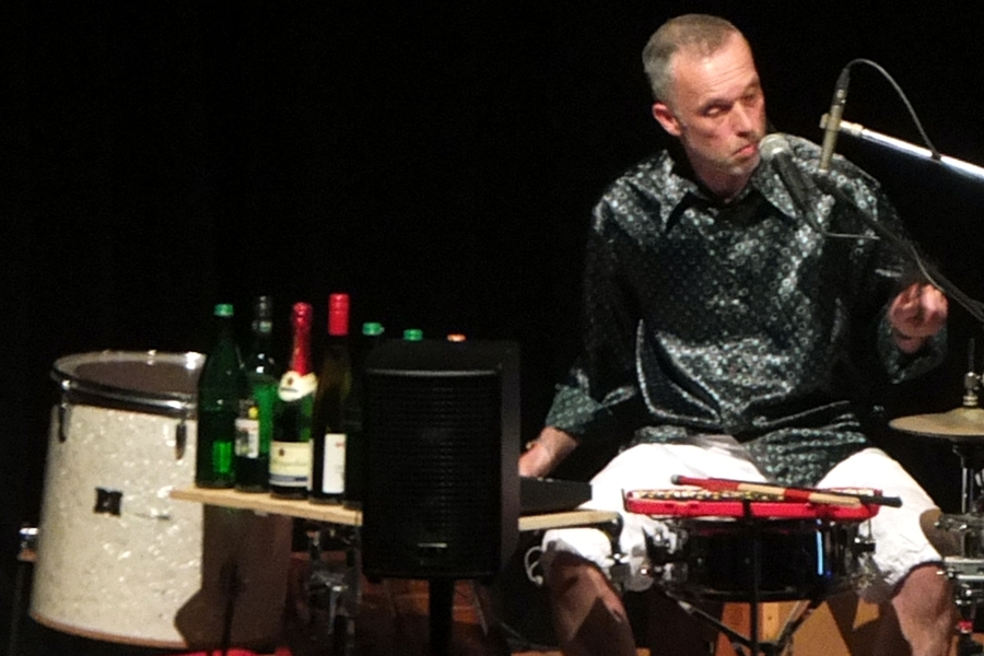 Peter Funda on stage with Flaschenspiel-Perkussion at the Klosterkirche Lennep (image detail)